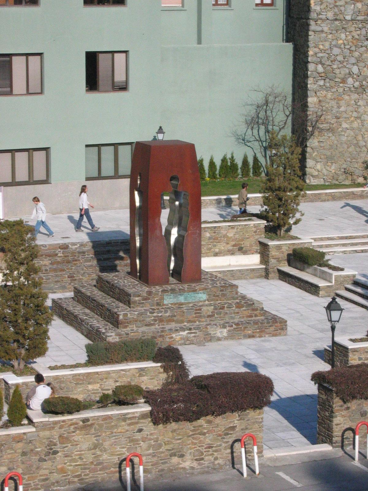 Monument to the constitution of Andorra